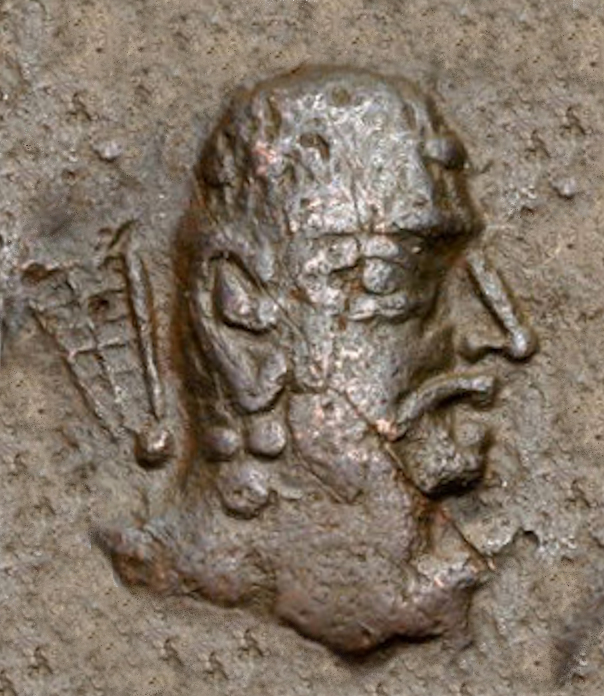 Toramana portrait from coin